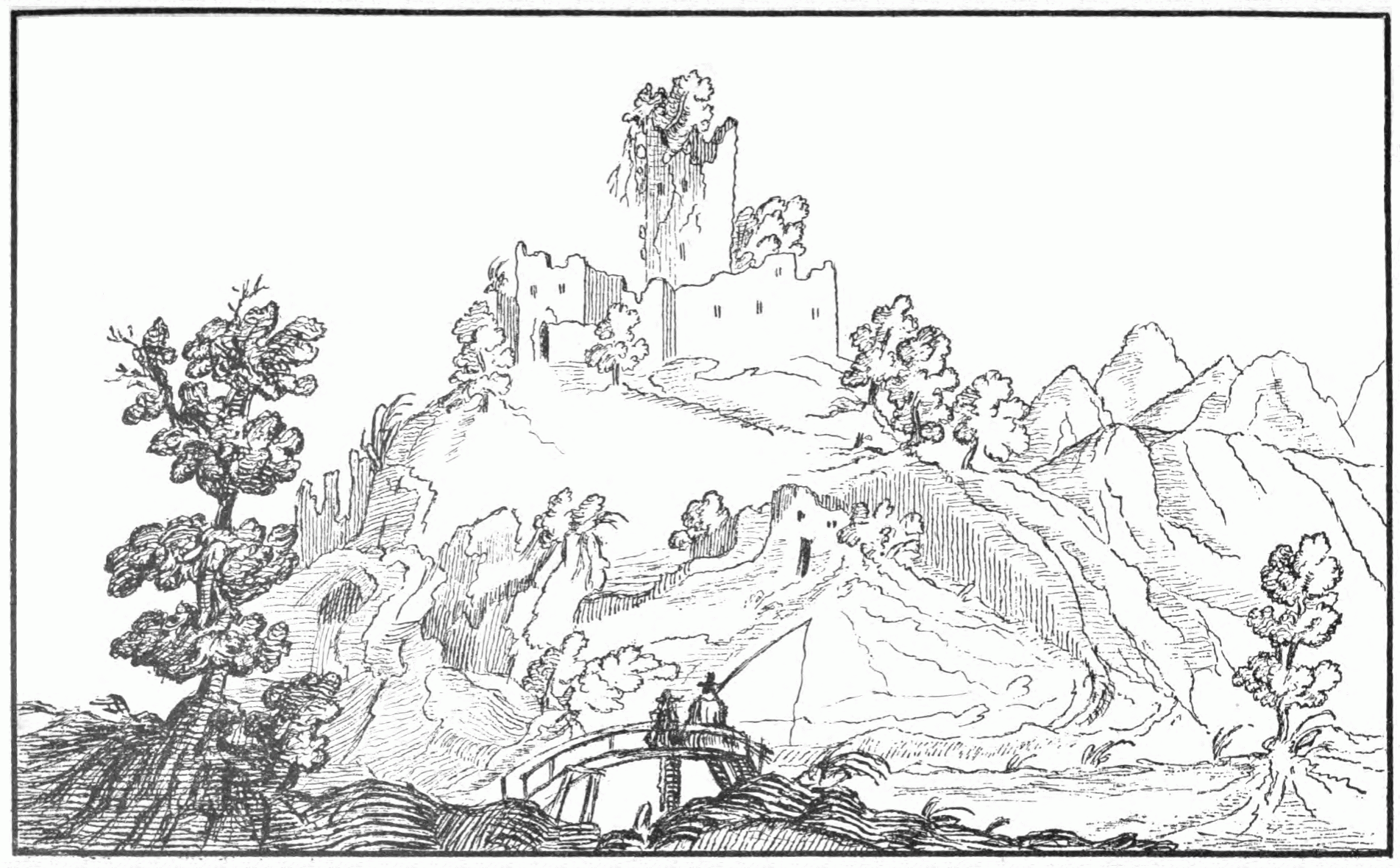 Belaj (now part of the community Barilović) nach einer Skizze von Giovanni Pieroni, 1639